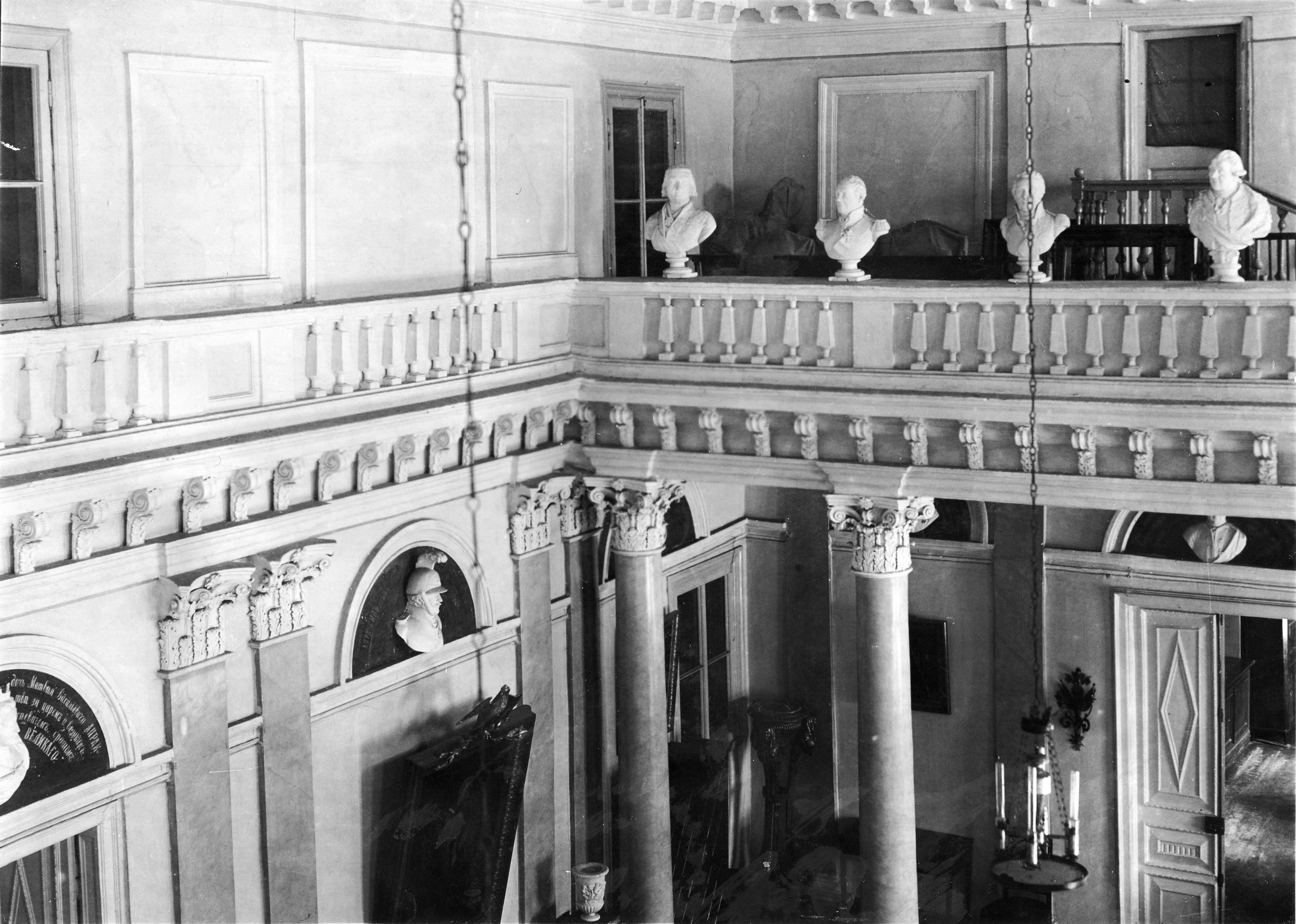 Portrait gallery of the Apraksin family in Olgovo